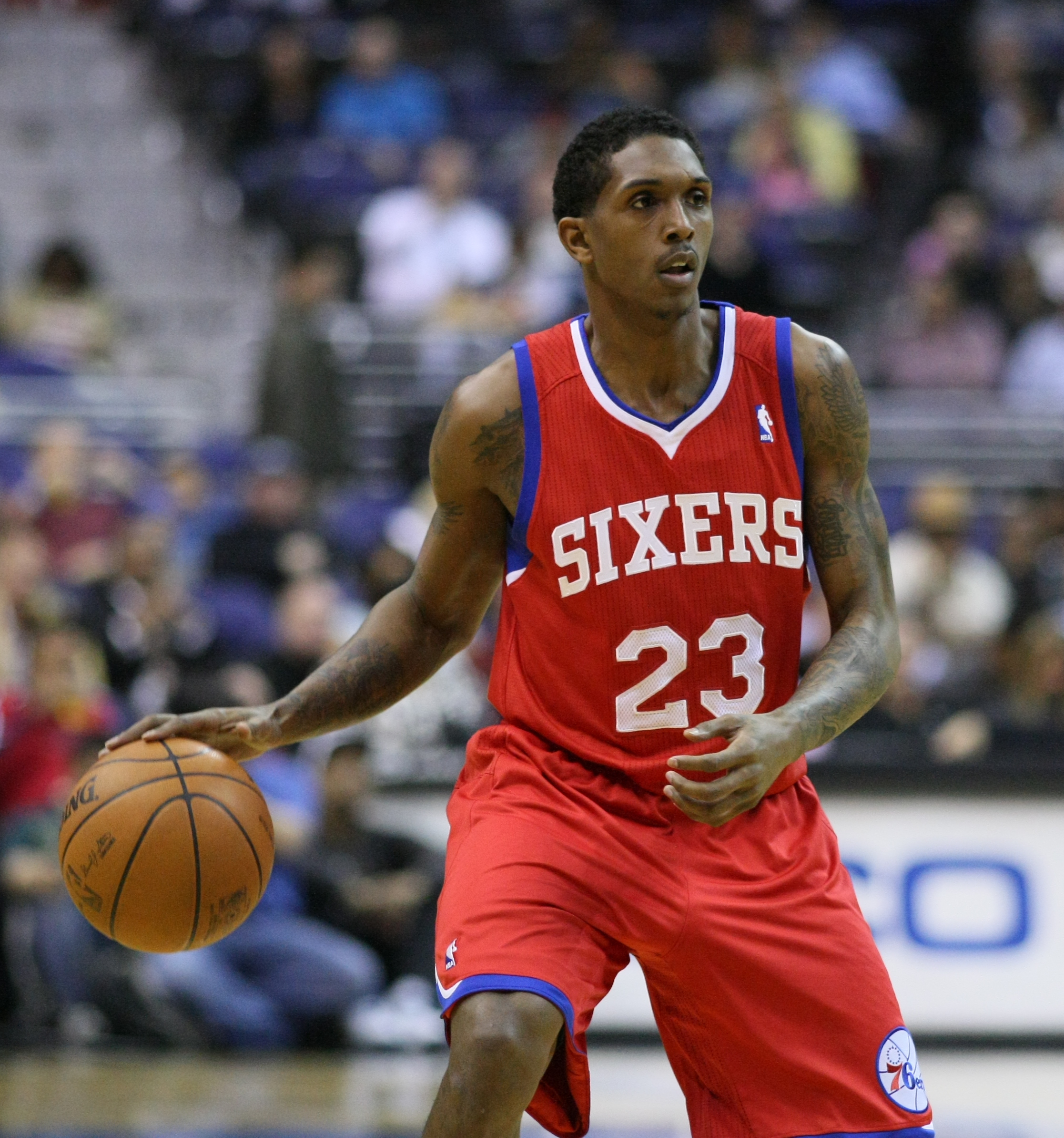 Washington Wizards v/s Philadelphia 76ers November 23, 2010